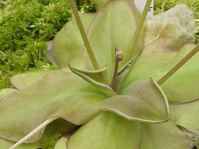 Species: Pinguicula moranensis Family: Lentibulariaceae Image No. 3